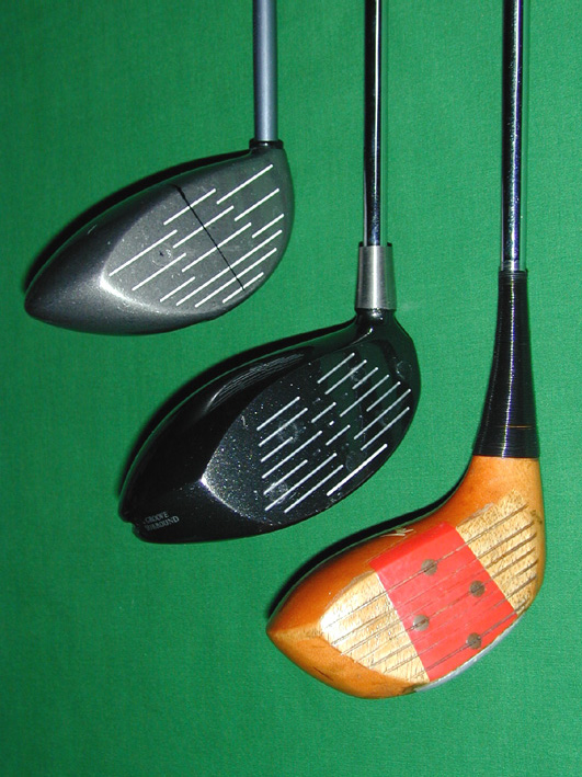 Photo of set of golf club heads made of wood and metal.